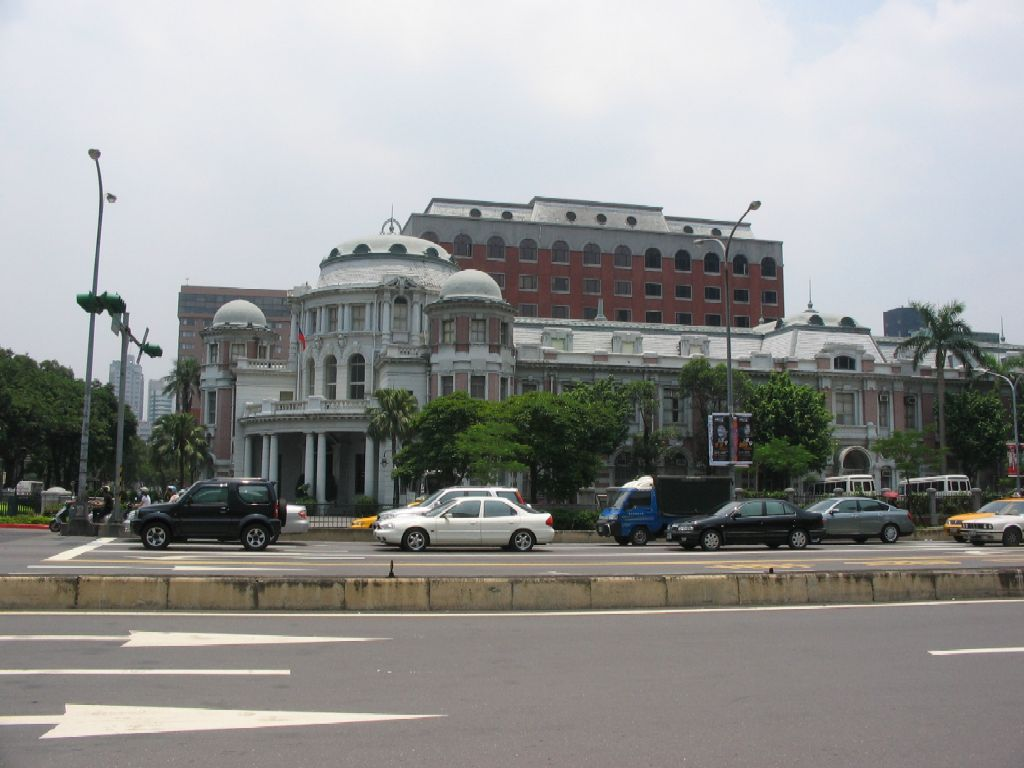 The Control Yuan building. Picture taken July 2, 2005 by Allen Timothy Chang.